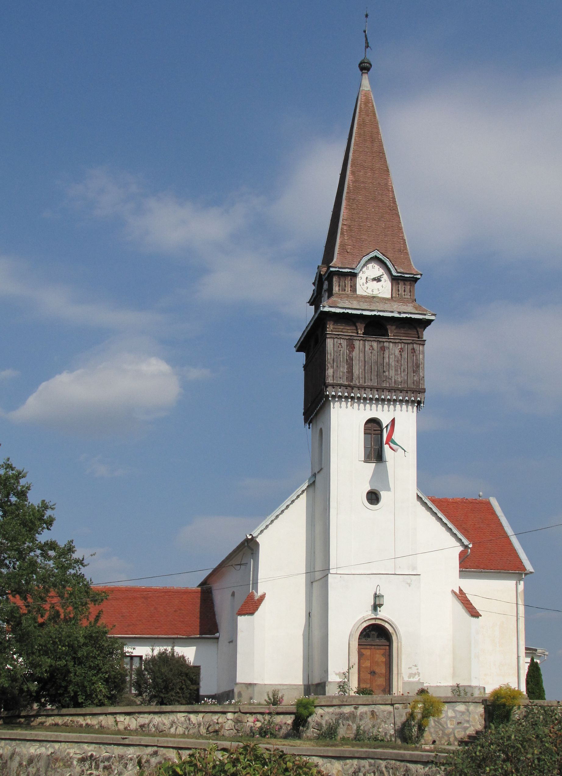 Reformed church, Kenderes, Hungary